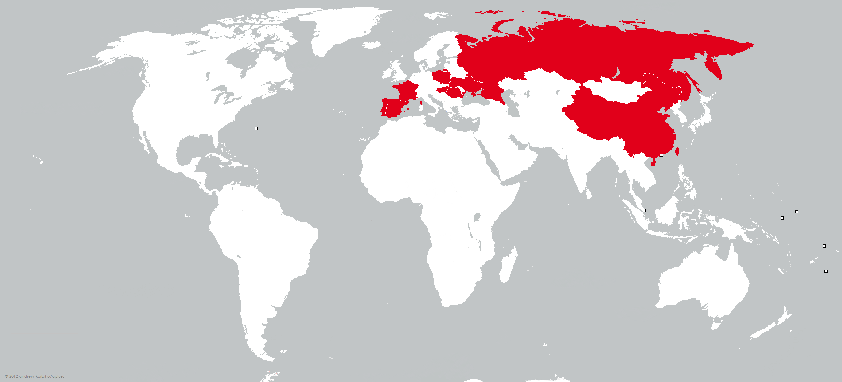 Auchan around the world